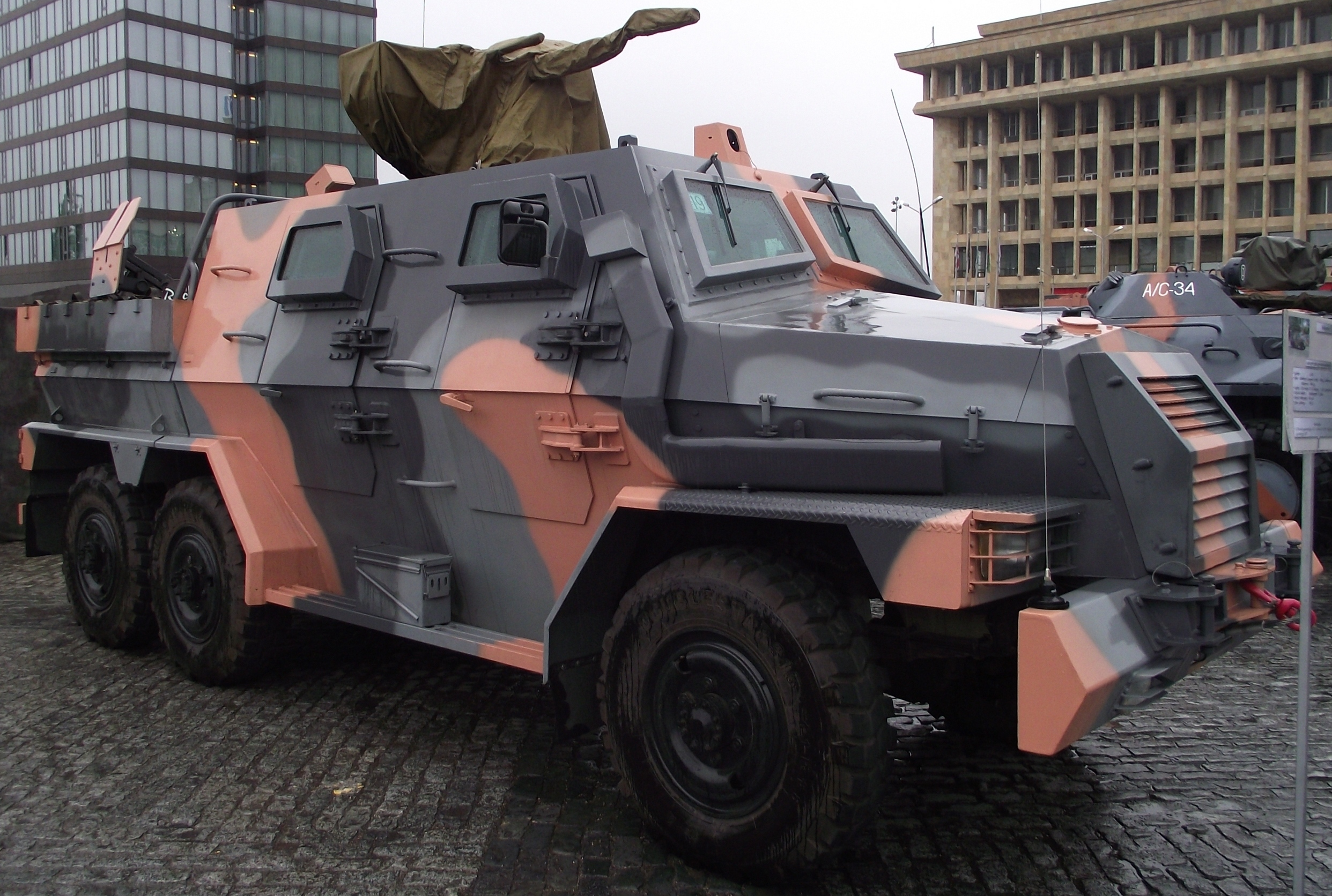 georgian made APC TAAV